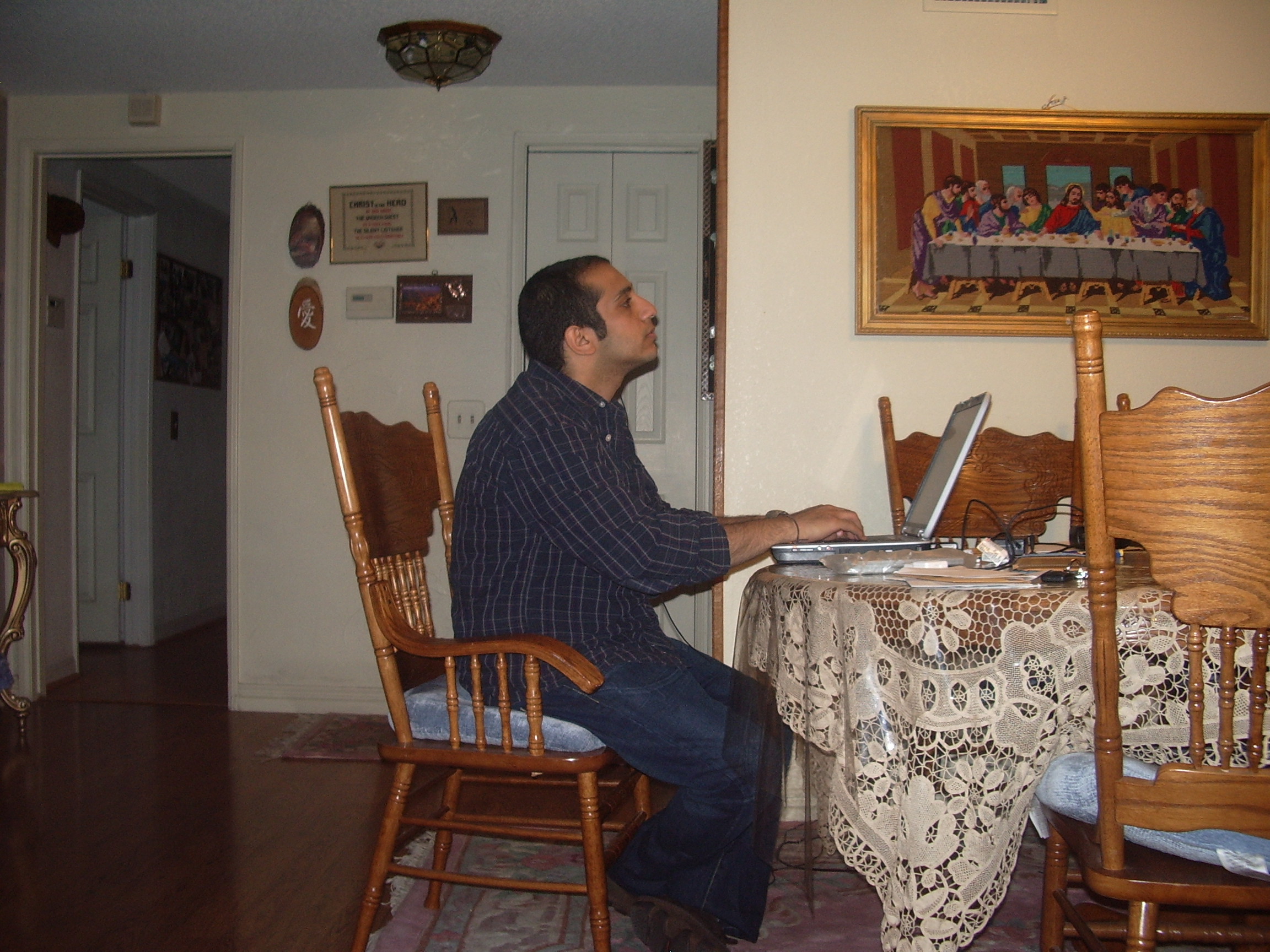 Watching and Blogging: watching and blogging on election night